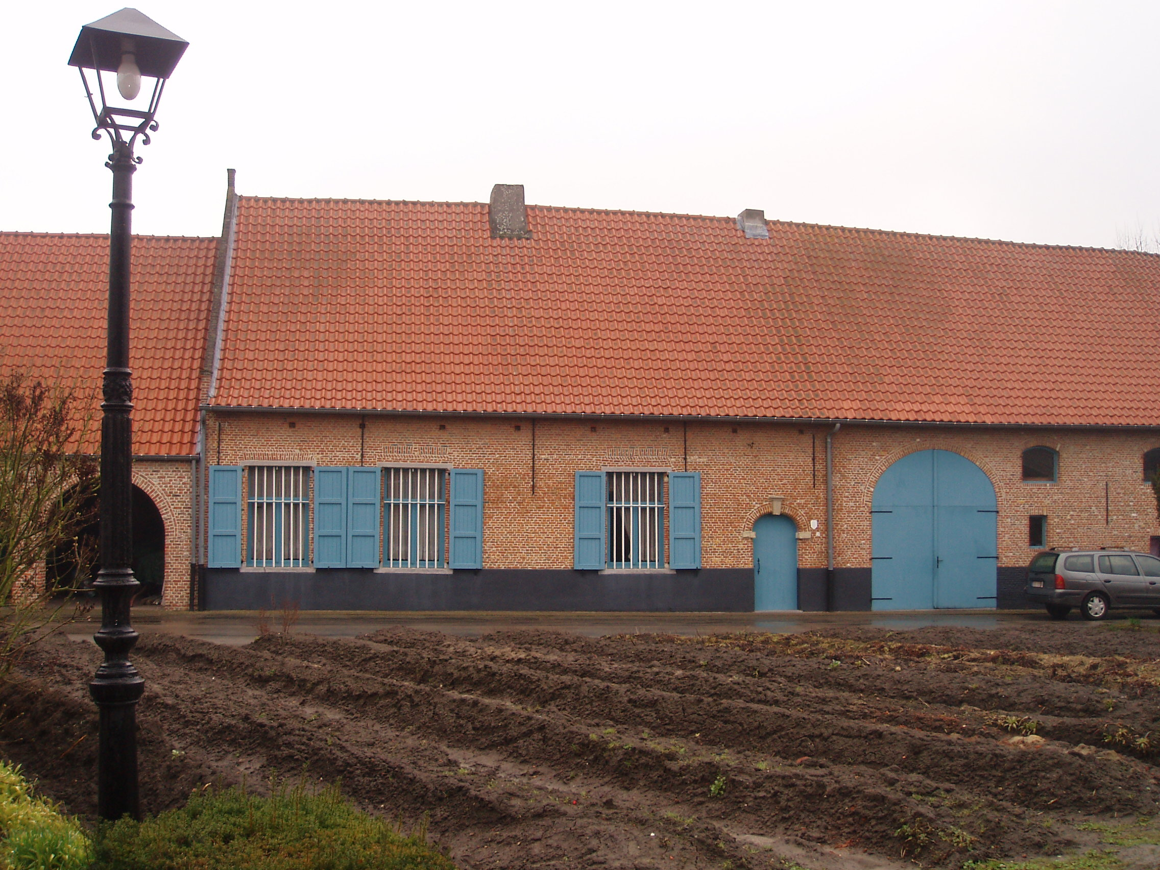 Sint-Katelijne-Waver Midzeelhoeve II